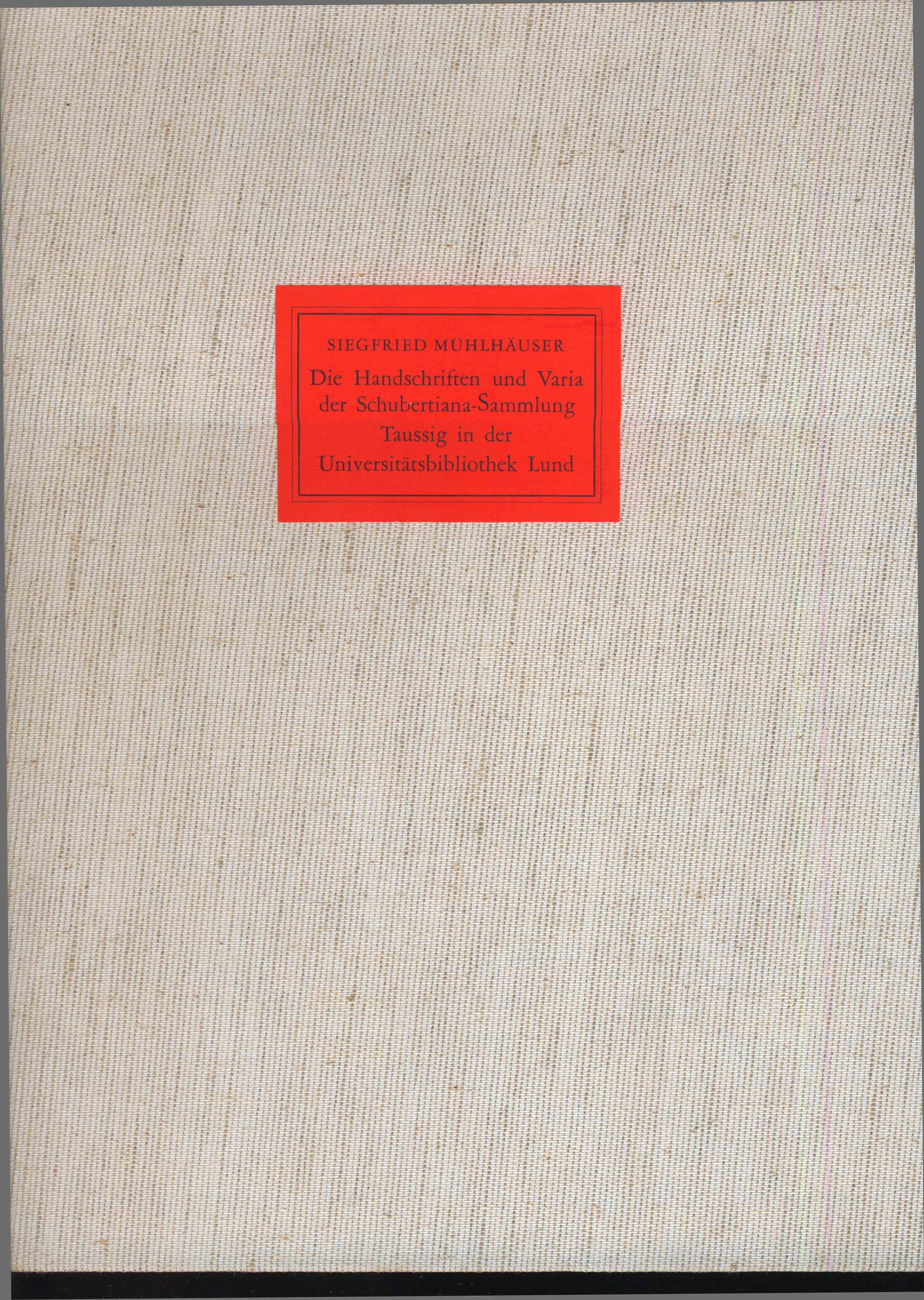 Tausig Lund